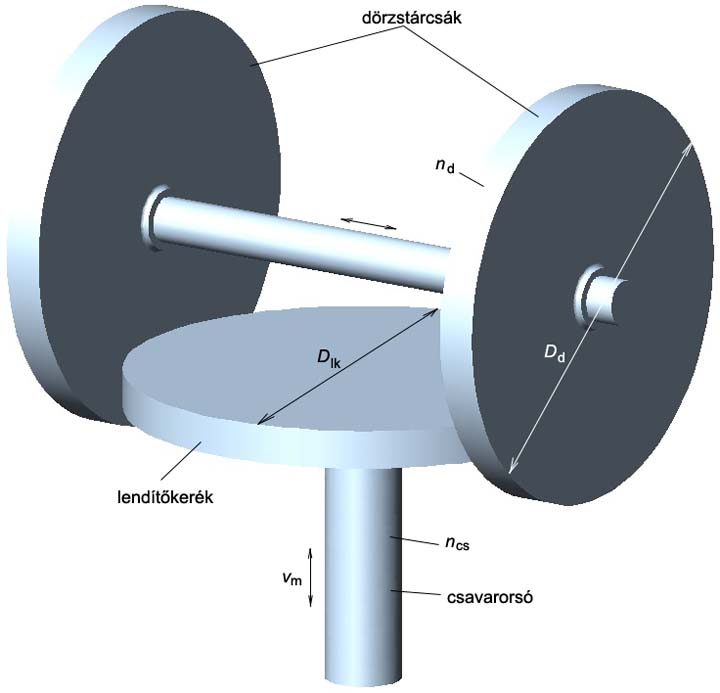 Principle of a frictional press